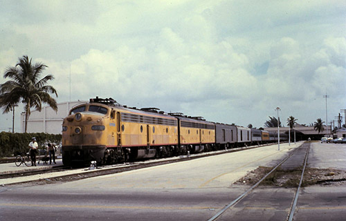 Amtrak train in Miami station in November 1972